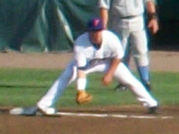 Florida and UCLA play game two at the 2010 College World Series at Johnny Rosenblatt Stadium in Omaha, Nebraska, USA.